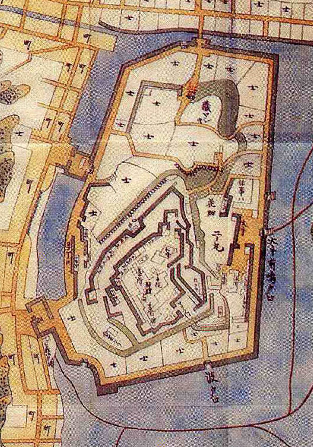 Toba Castle, Japan